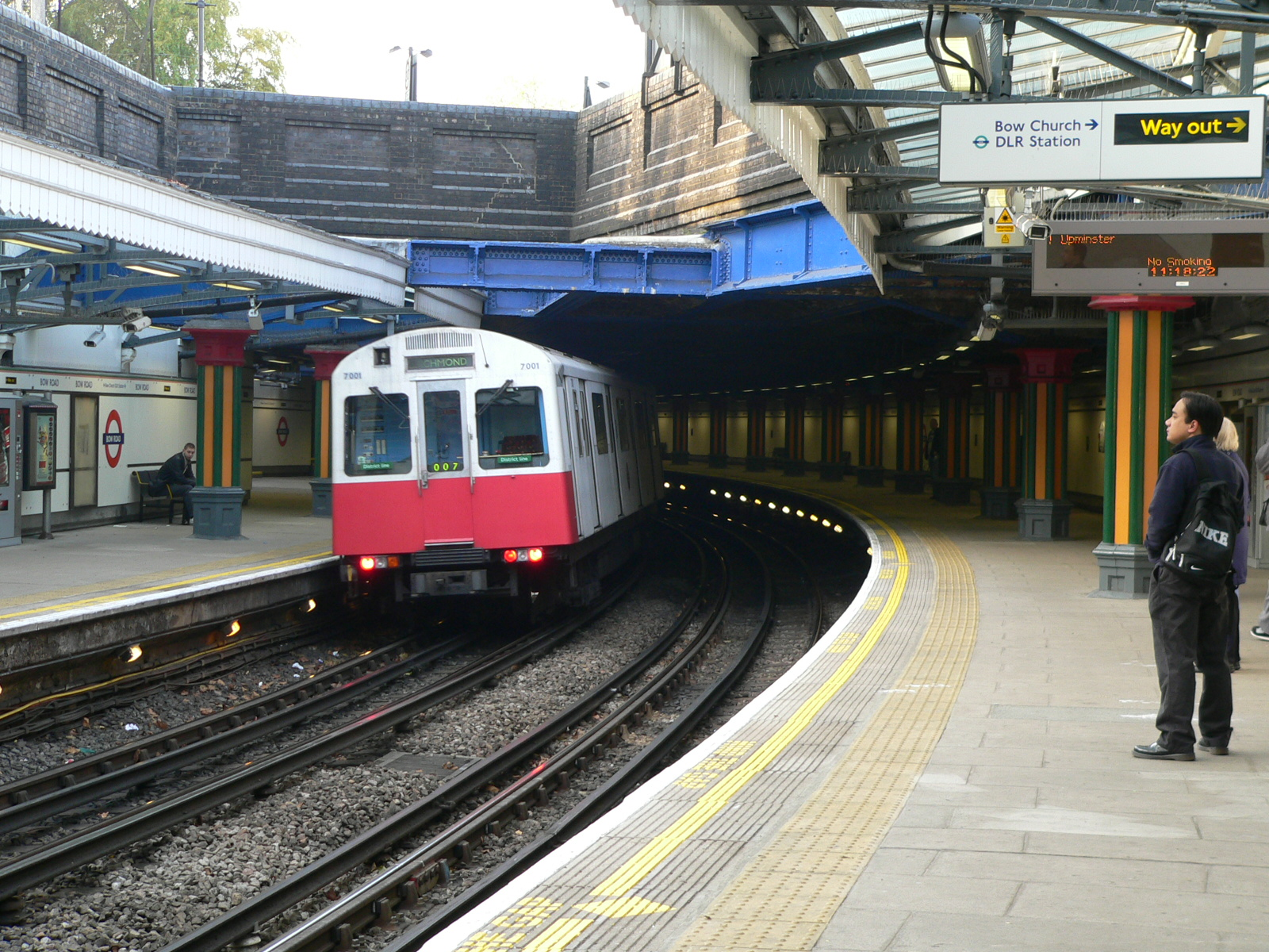 A westbound District Line D stock train departs Bow Road tube station.